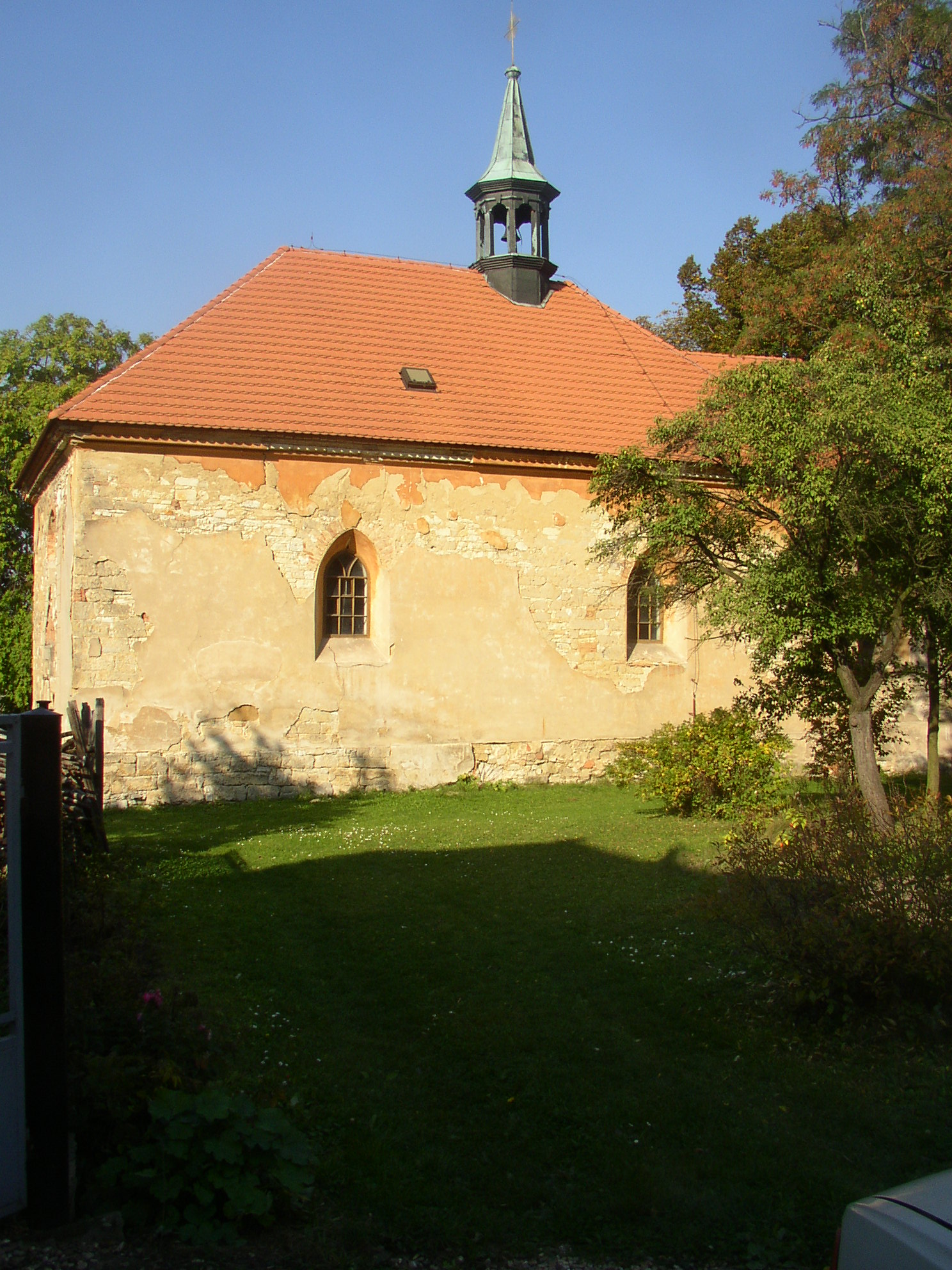 All Saints Church in Malíkovice, Kladno District, Czech Republic. A view from south.